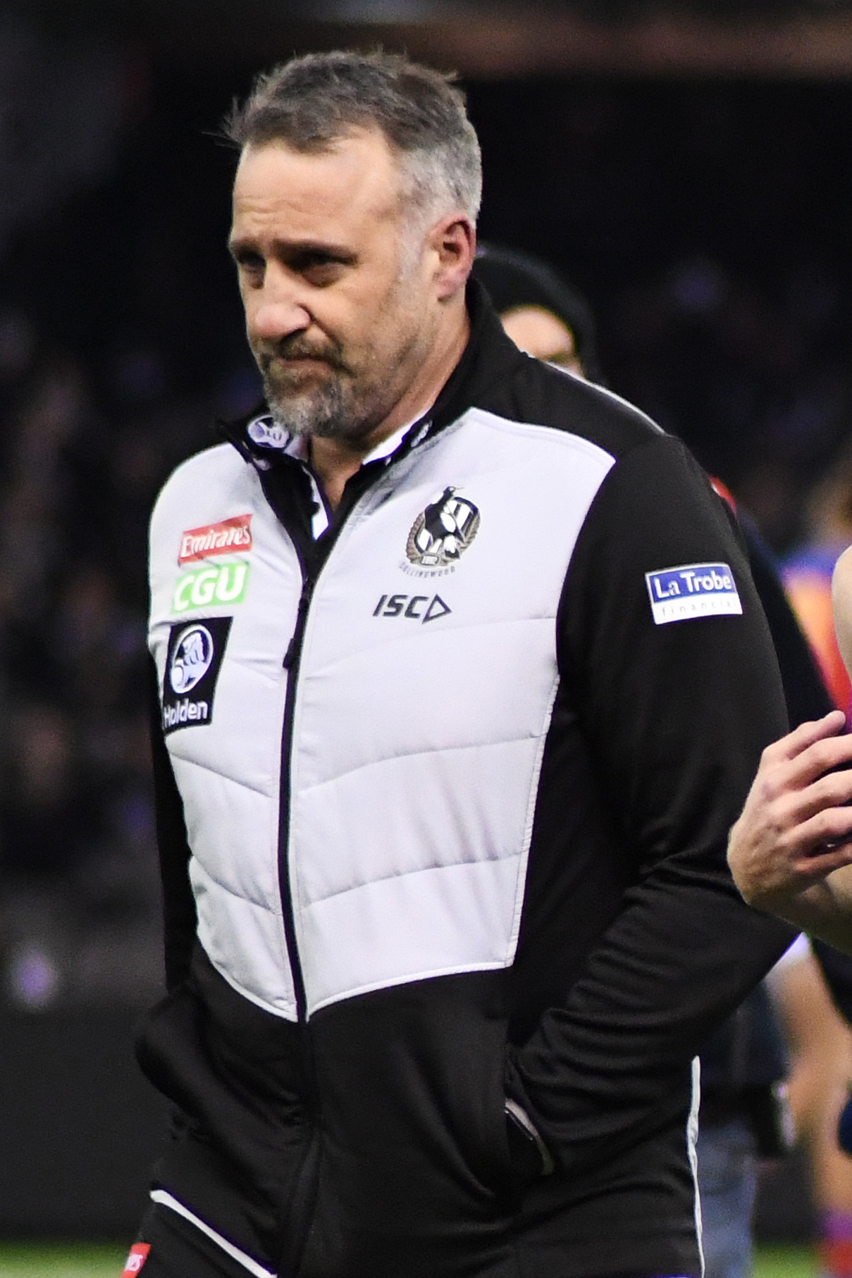 Anthony Rocca of Collingwood during the 2018 AFL round 21 match between Collingwood and Brisbane at Etihad Stadium on Saturday, 11 August 2018 in Melbourne, Victoria.